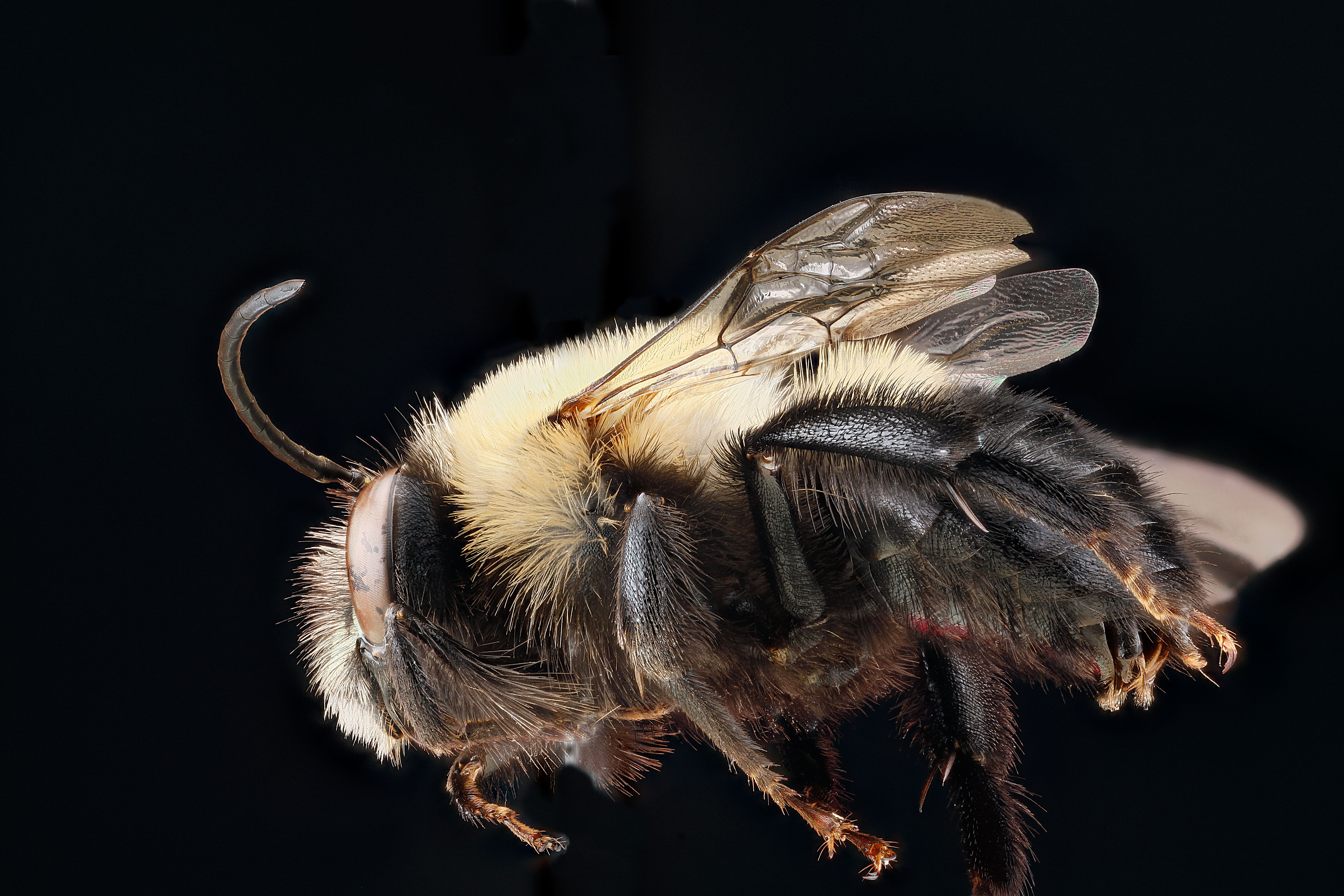 Habropoda laboriosa, male, Queen Anne's County, Maryland, March 2012